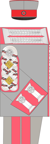 Colonel (General Staff) 1913-1915